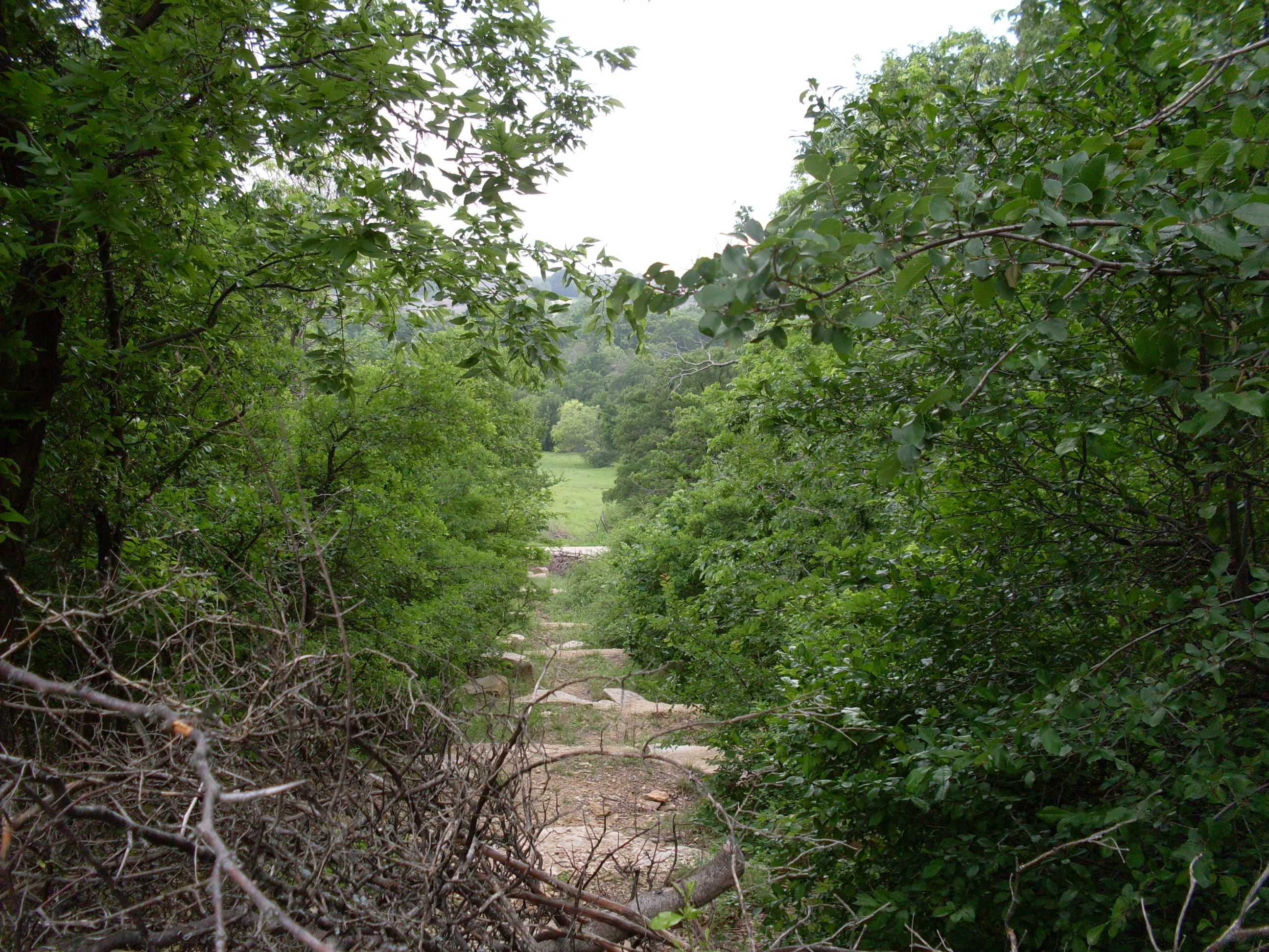 Trail vista, Arbor Hills Nature Preserve